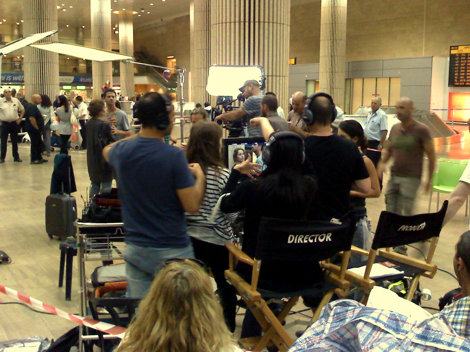 Shooting a scene from the Israeli TV series Hatufim ("Prisoners of War"), season 2. The scene takes place in the Arrivals Hall of Terminal 3, Ben Gurion Airport, Israel. It was filmed at the original location on the night between June 6 and 7, 2011. It is from episode 11, "Our Woman in Damascus" (Original air date: December 17 2012). In the scene, Uri Zach (played by Ishai Golan) meets Nurit (actress Mili Avital), who comes back from Syria. Also arriving to meet her is Dr. Haim Cohen (actor Gal Zaid). The scene lasts approximately 46 seconds during the episode, whilst the work of shooting it took more than a hour long. Unfortunately, arriving by chance to the set, I only had my cell phone for taking pictures, hence the quality of the pictures...